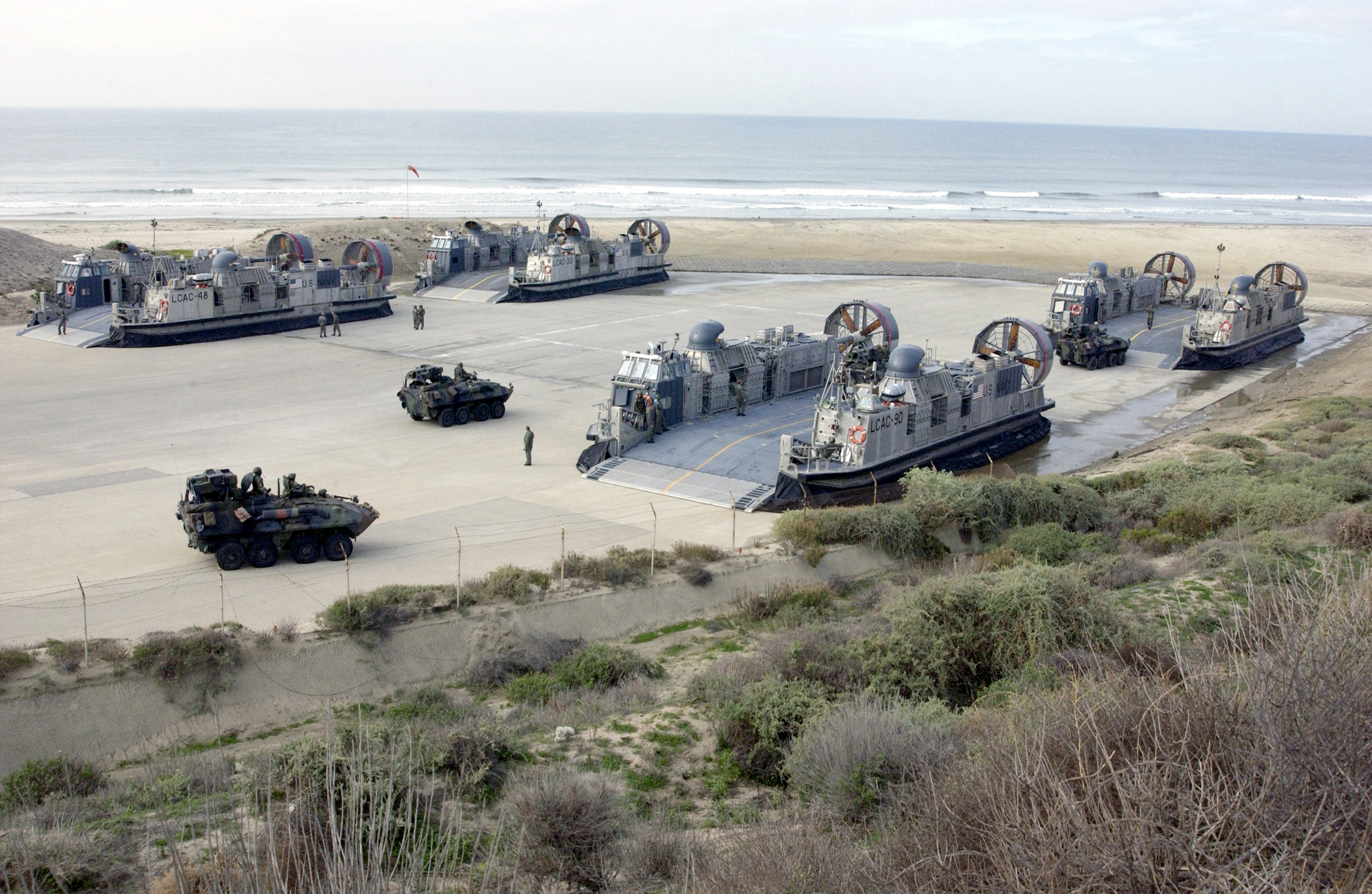 Camp Pendleton, Calif. (Dec. 11, 2002) -- U.S. Marine Corps Light Armored Vehicles (LAV) prepare to board Landing Craft Air Cushions (LCAC) assigned to the "Swift Intruders" of Assault Craft Unit Five (ACU-5) during exercises at Camp Pendleton Marine Corps Station. LCAC's can carry a variety of Marine Corps light and heavy equipment as well as troops for landing on hostile shores. U.S. Navy photo by Photographer’s Mate Airman Jason D. Landon. (RELEASED)